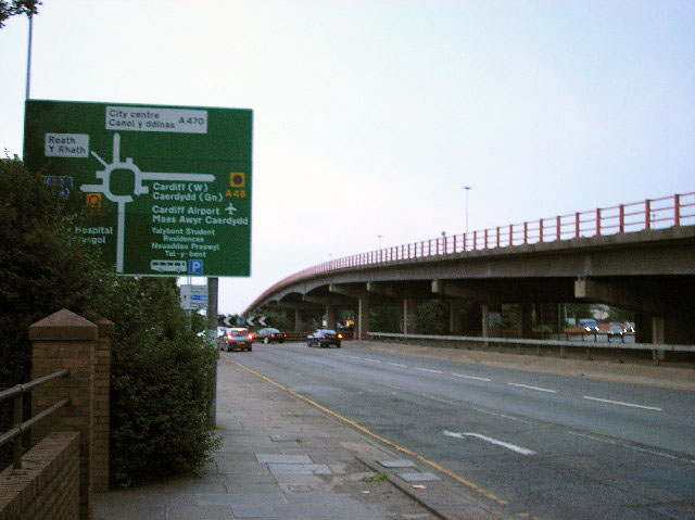 Gabalfa flyover, Cardiff Gabalfa flyover, Mynachdy, Cardiff looking towards the city centre.